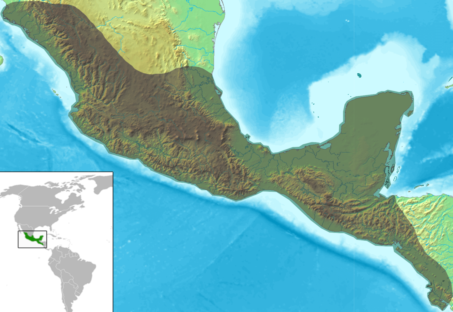 Blank relief map of Mesoamerica. Summary